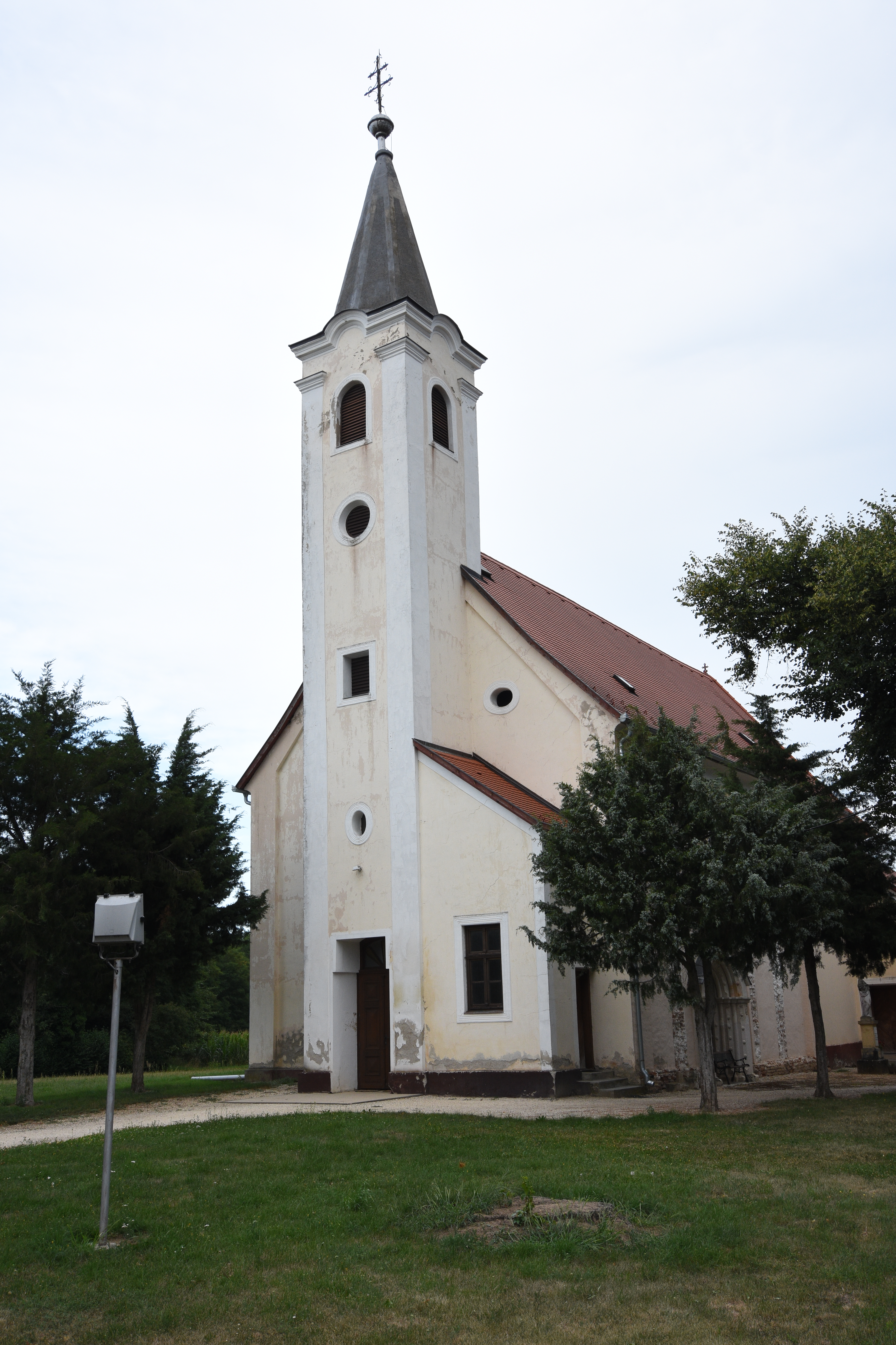 Pinkaszentkirály Church